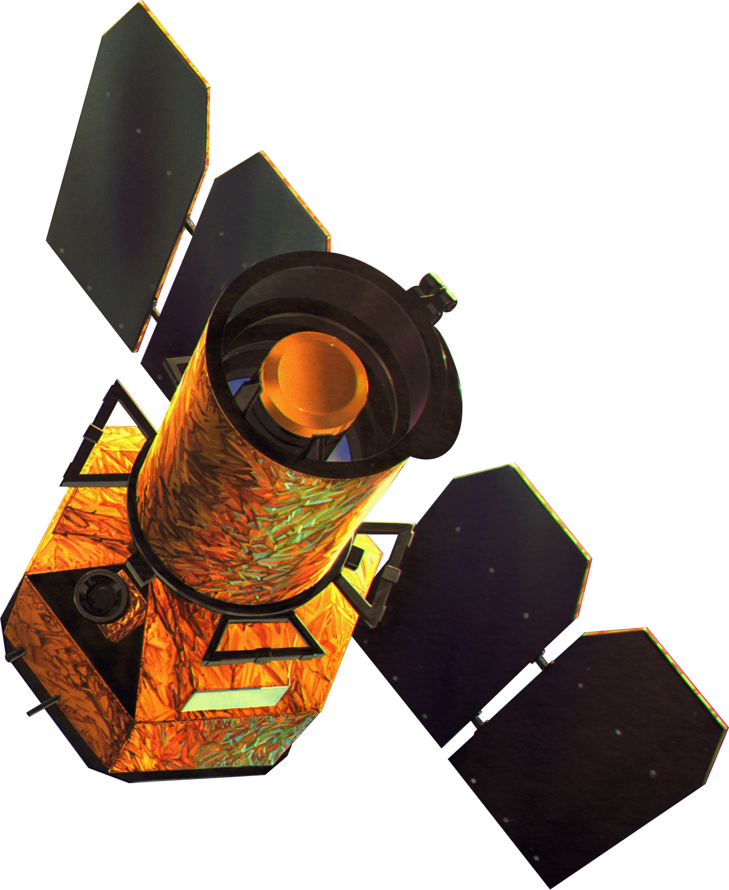 Artist's concept of the GALEX spacecraft.